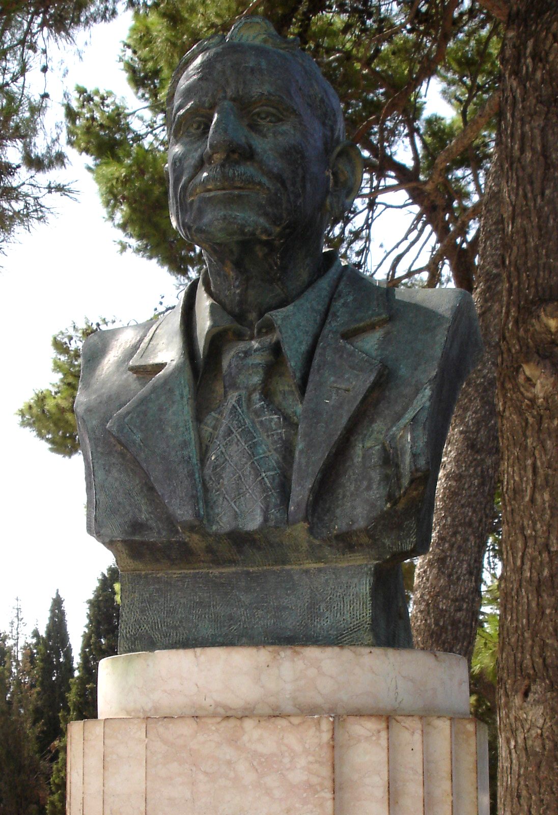 Archeologist Sir Arthur Evans, bust located at Knossos palace, Crete.